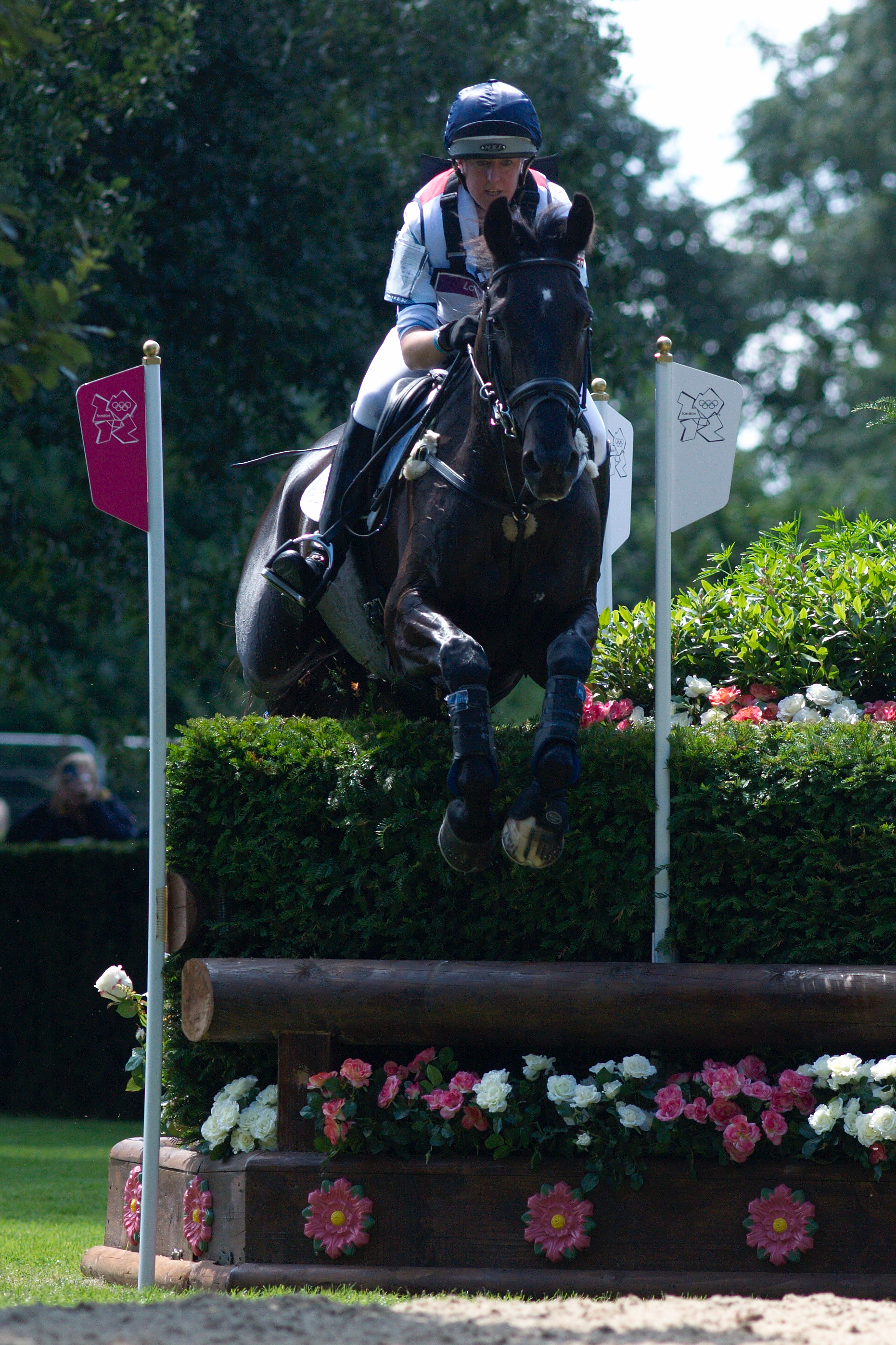 Nicola Wilson and Opposition Buzz, competing for GBR, at fence 24, during the cross-country phase of the Eventing during the 2012 Olympic Games in Greenwich Park, London.